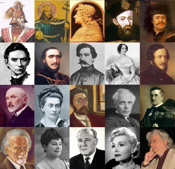 famous Hungarians: Álmos, Grand Prince of the Magyars, Stephen I of Hungary, Matthias Corvinus, Gábor Bethlen, Ferenc Rákóczi, János Bolyai, István Széchenyi, János Arany, Róza Laborfalvi, József Eötvös, Loránd Eötvös, Vilma Hugonnai, Tivadar Kosztka, Béla Bartók, Miklós Horthy, Zoltán Kodály, Emma Orczy, János Kádár, Zsa Zsa Gabor, Péter Esterházy Péter Esterházy (b. 1950), Hungarian writer